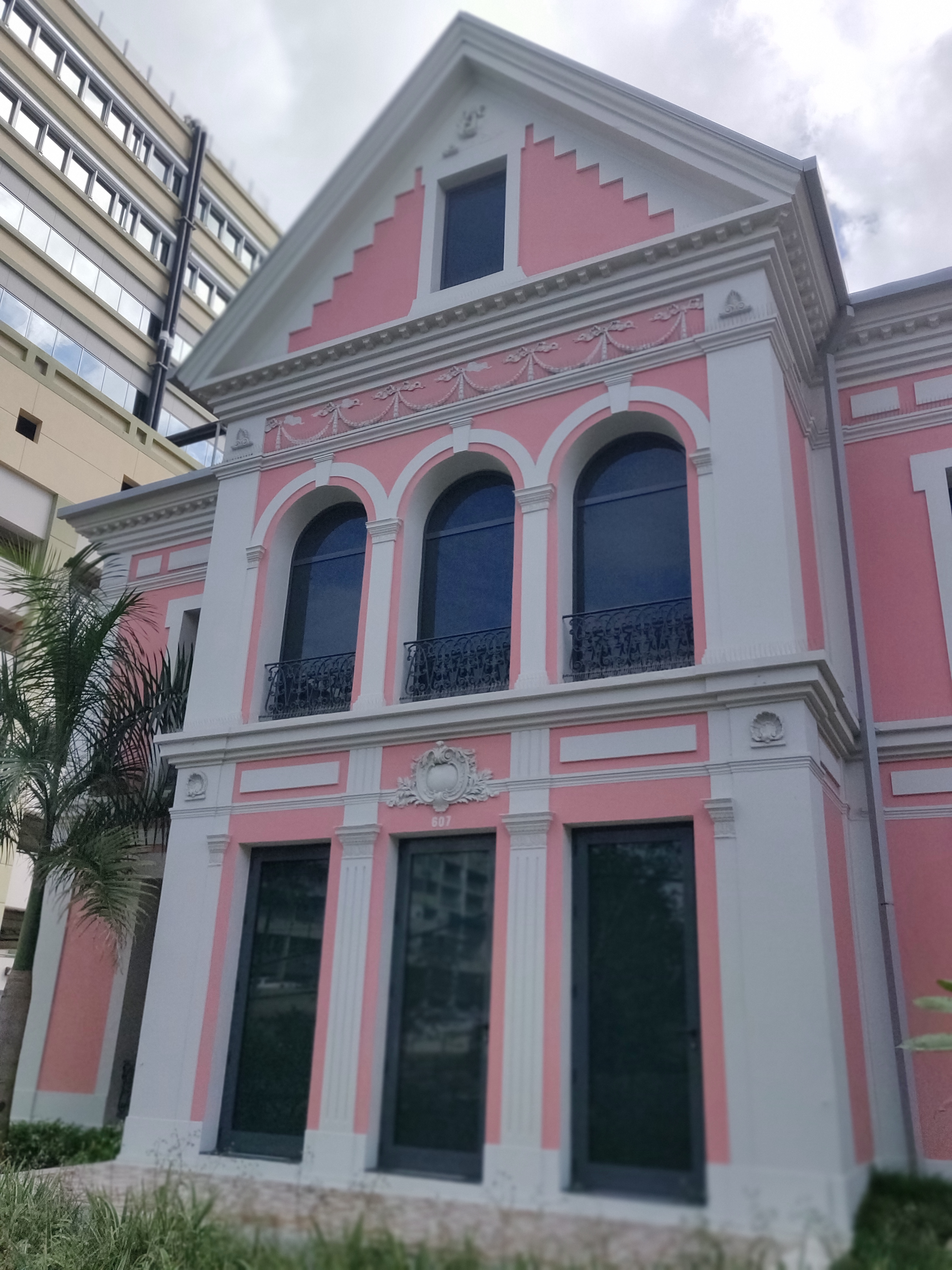 View of the MADMi museum in Miramar, San Juan, Puerto Rico. it's dedicated to art and design.